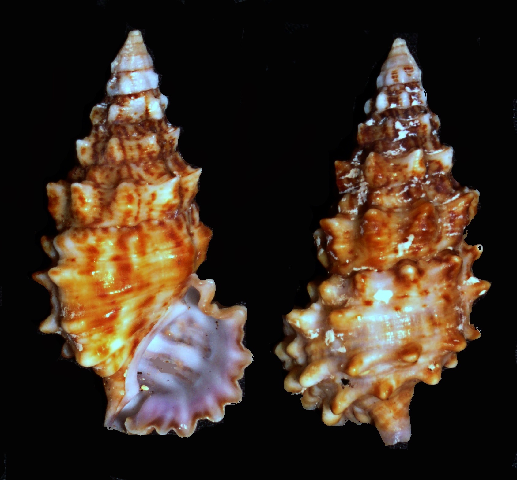 The Spiny Creeper (Cerithium echinatum)